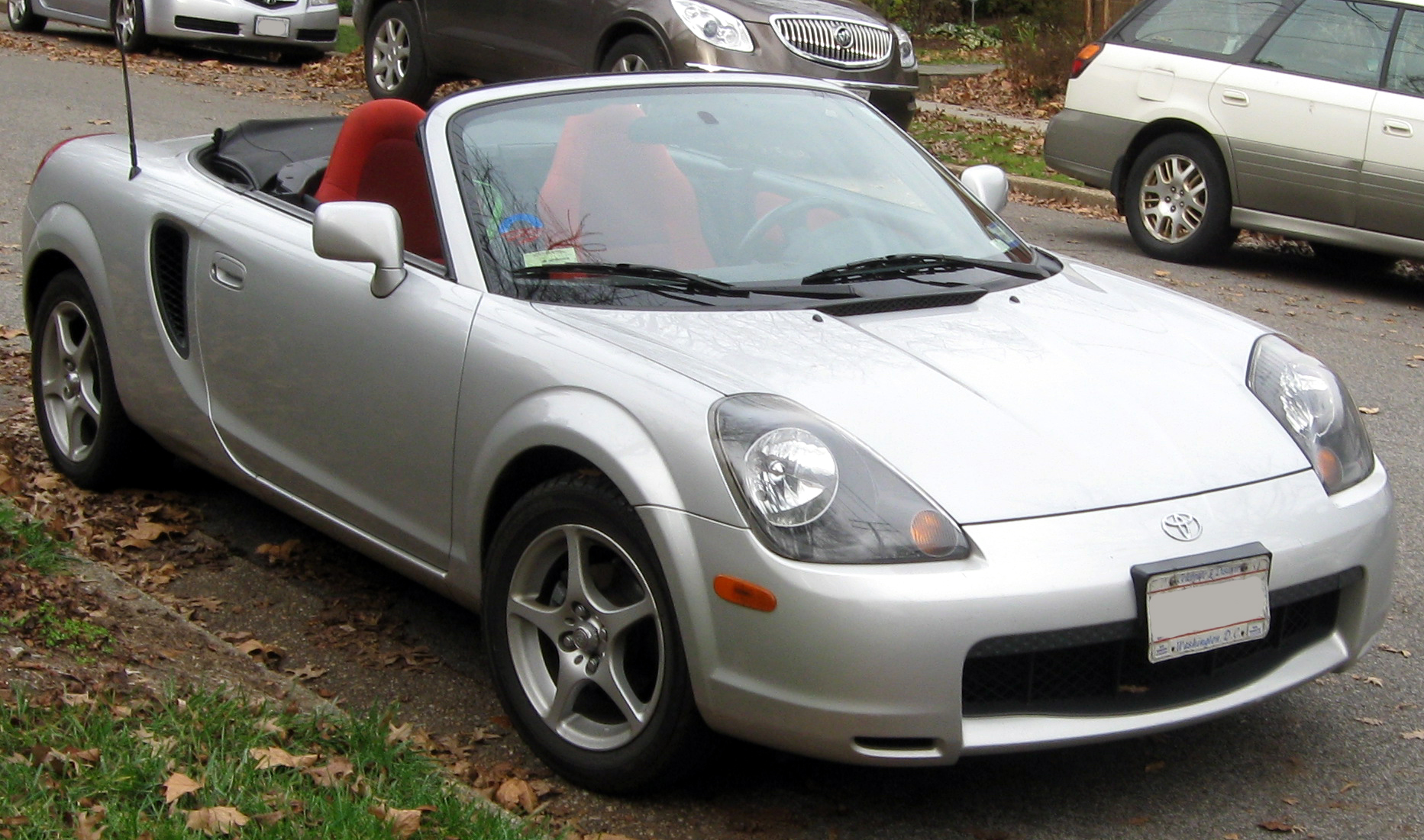 2000-2002 Toyota MR2 Spyder photographed in Washington, D.C., USA.